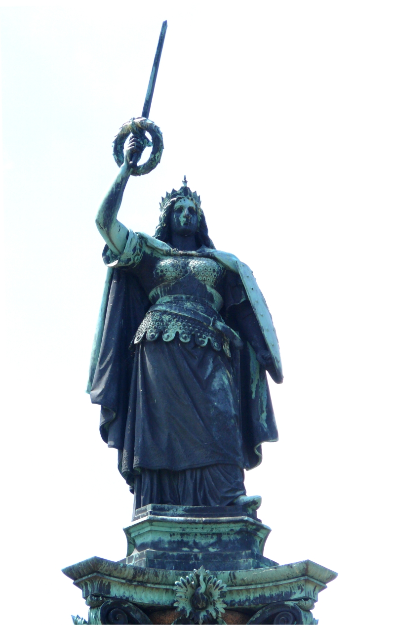 Schwerin War memorial 1870/71 with Figure „Megalopolis“ by sculptor Gustav Willgohs